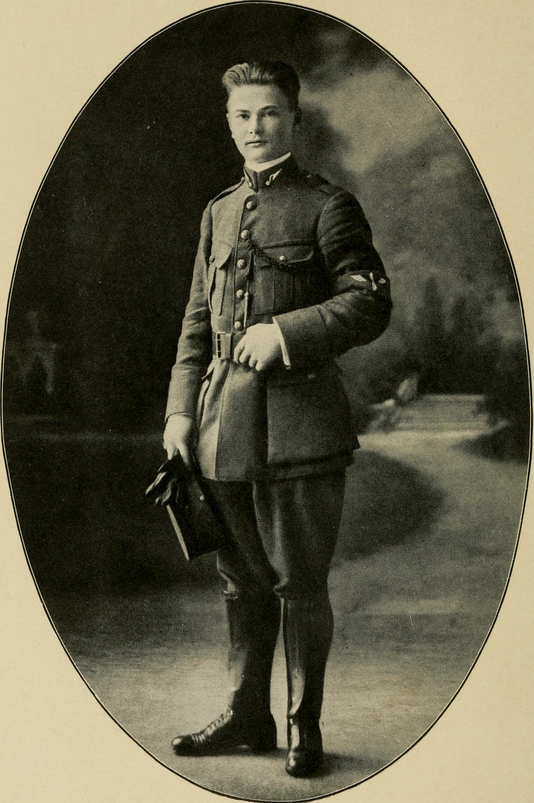 Title: War letters of Edmond Genet, the first American aviator killed flying the stars and stripes Year: 1918 (1910s) Authors: Genet, Edmond Charles Clinton, 1896-1917 Channing, Grace Ellery, 1862-1937, ed Subjects: World War, 1914-1918 Publisher: New York, C. Scribner's Sons Text Appearing Before Image: ' Text Appearing After Image: Edmond Charles Clinton Genet.From a photograph taken in Paris, September 4, 1916, WAR LETTERS OF EDMOND GENET THE FIRST AMERICAN AVIATOR KILLED FLYING THESTARS AND STRIPES EDITED, WITH AN INTRODUCTION, BY GRACE ELLERY CHANNING PREFATORY NOTE BY JOHN JAY CHAPMAN NEW YORKCHARLES SCRIBNERS SONS 1918 Copyright, 1918, byCHARLES SCRIBNERS SONS PubUshed Jxine, 1918 JUN 10 1918warlettersofedmo00gene